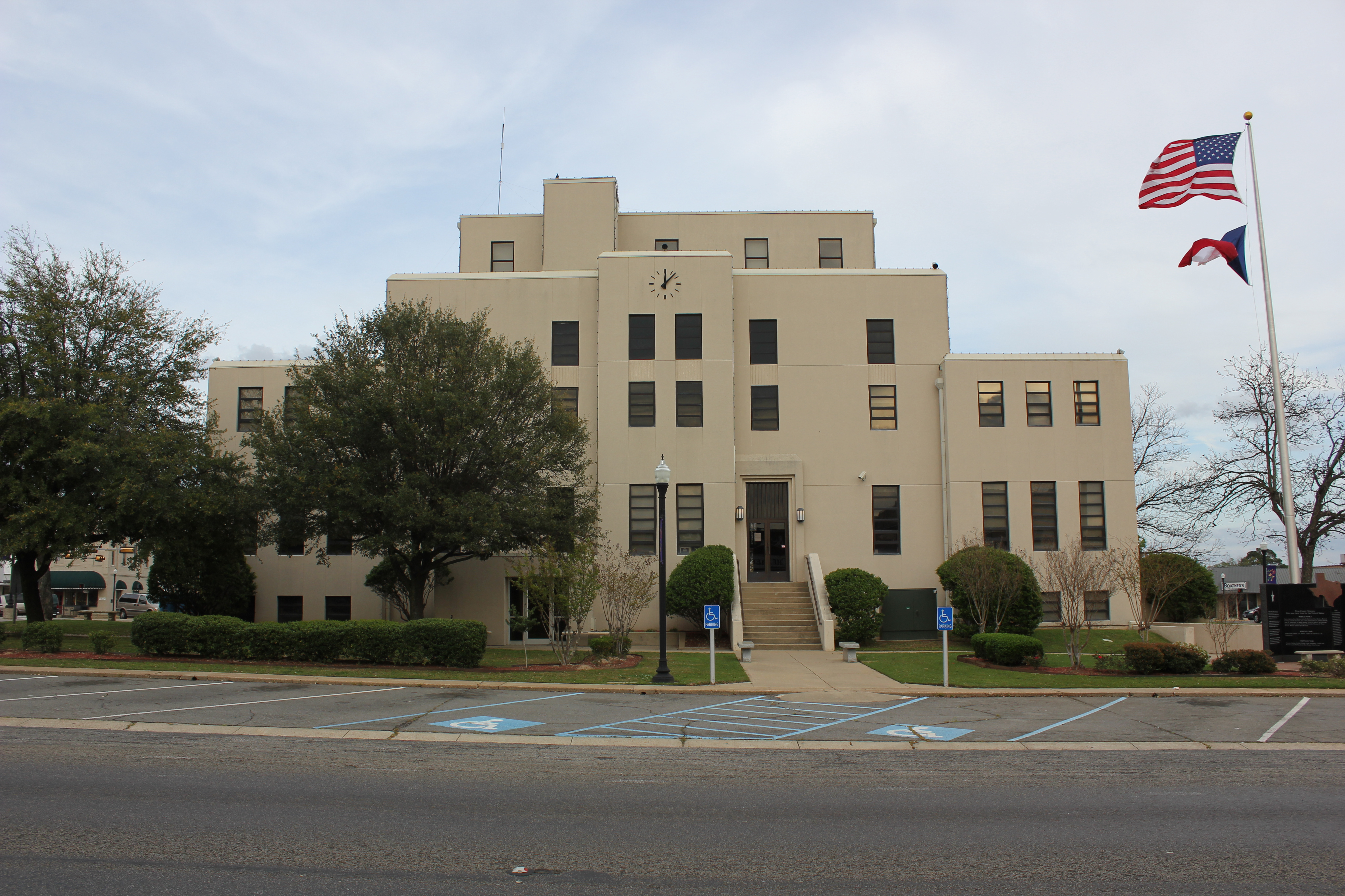 This is a very good article on this courthouse, which has arguably the most unique history in the state. Believe it or not, this was built in 1895 (the article gives the explanation). Another interesting note, both times I've visited this courthouse, they've had the radio blasting on the courthouse lawn.